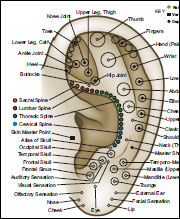 Acupuncture points of the ear, auriculotherapy